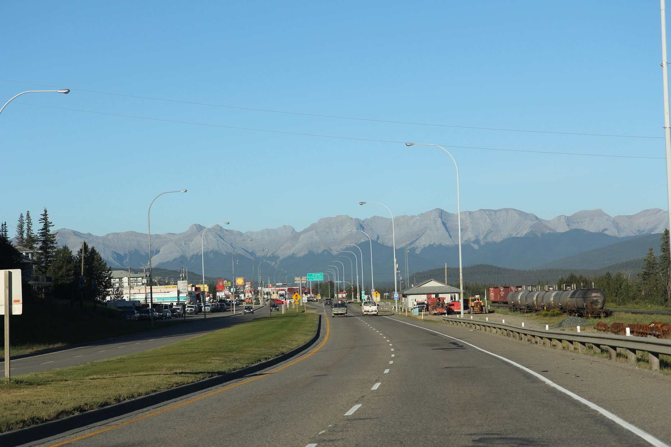 Looking west at Hinton, Alberta from the Trans Canada highway (Yellowhead Highway).